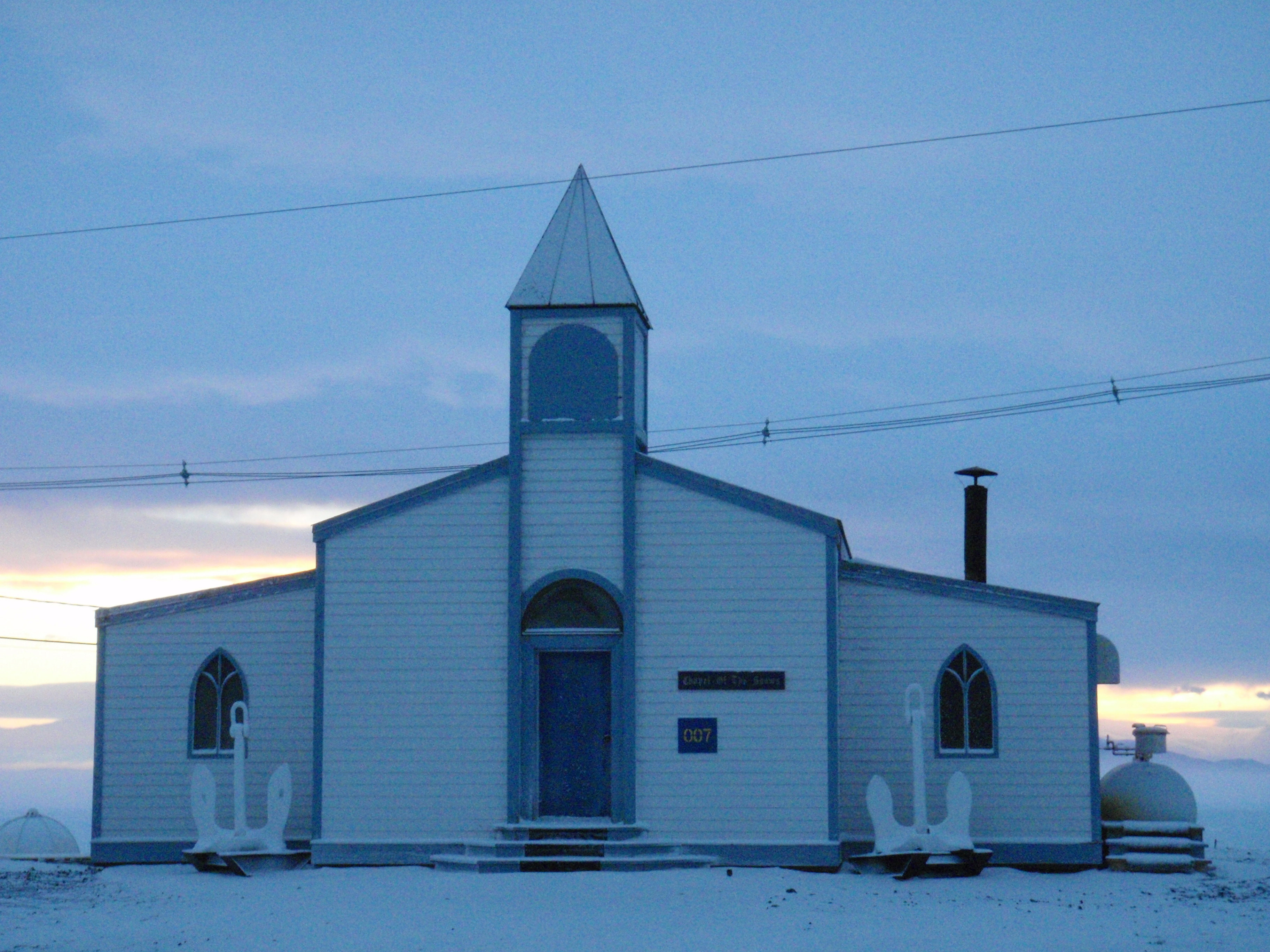 First Snow of Winter - Chapel of the Snows